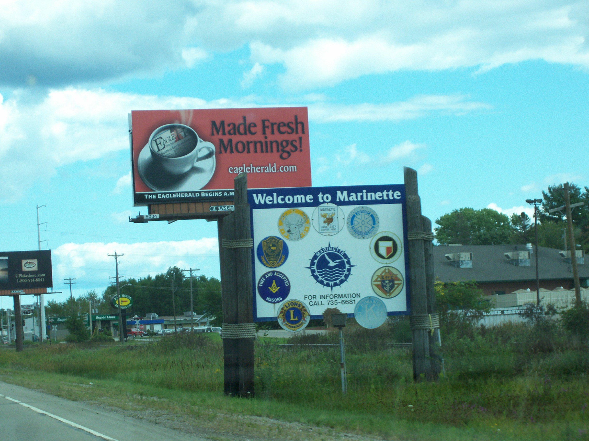 The sign for Marinette, Wisconsin, USA. Looking north on U.S. Route 41.